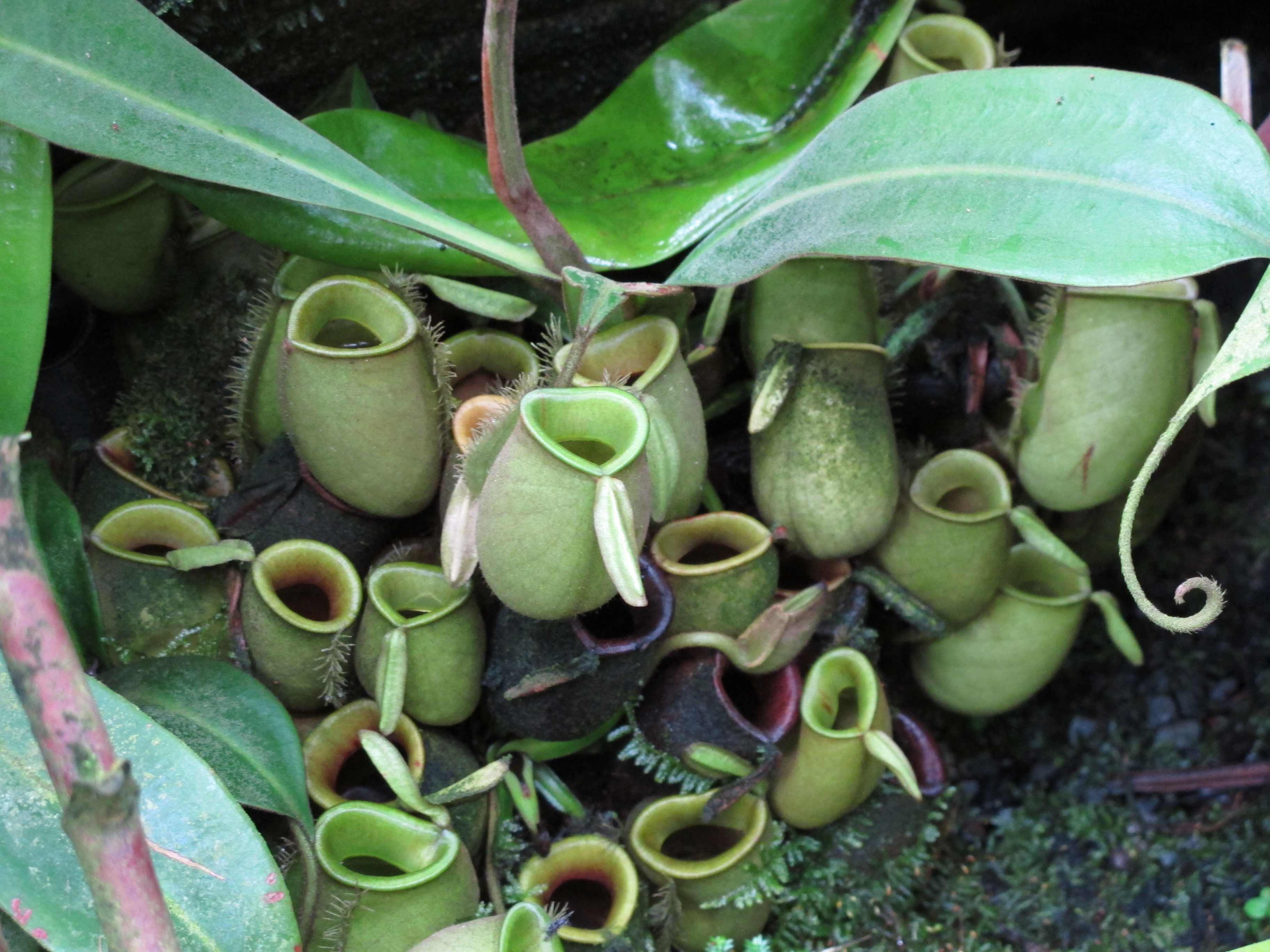 Nepenthes ampullaria at Atlanta Botanical Garden, Georgia, USA